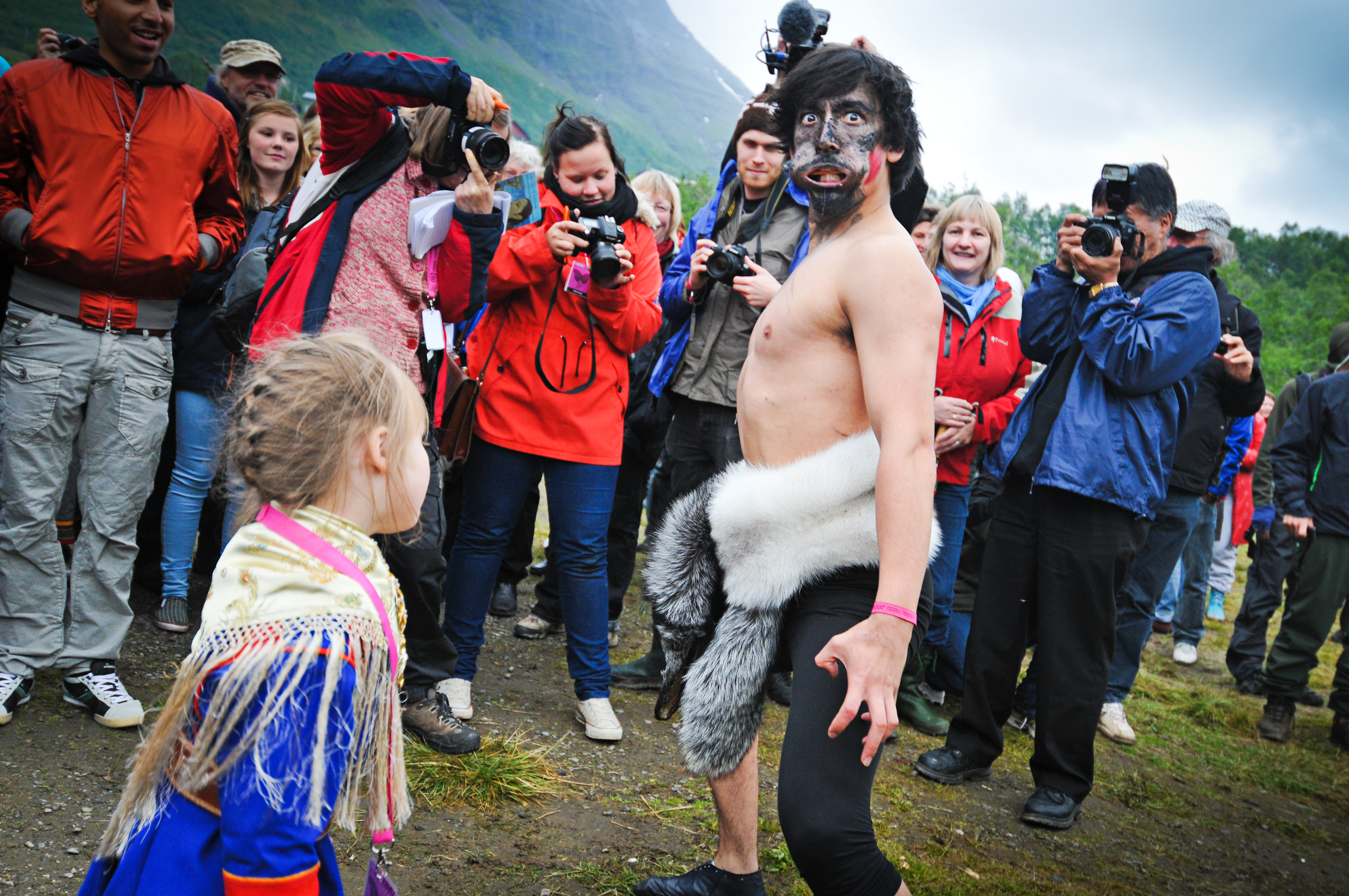 Indigenous Youth Gathering on Riddu Riddu. Photo: Marius Fiskum